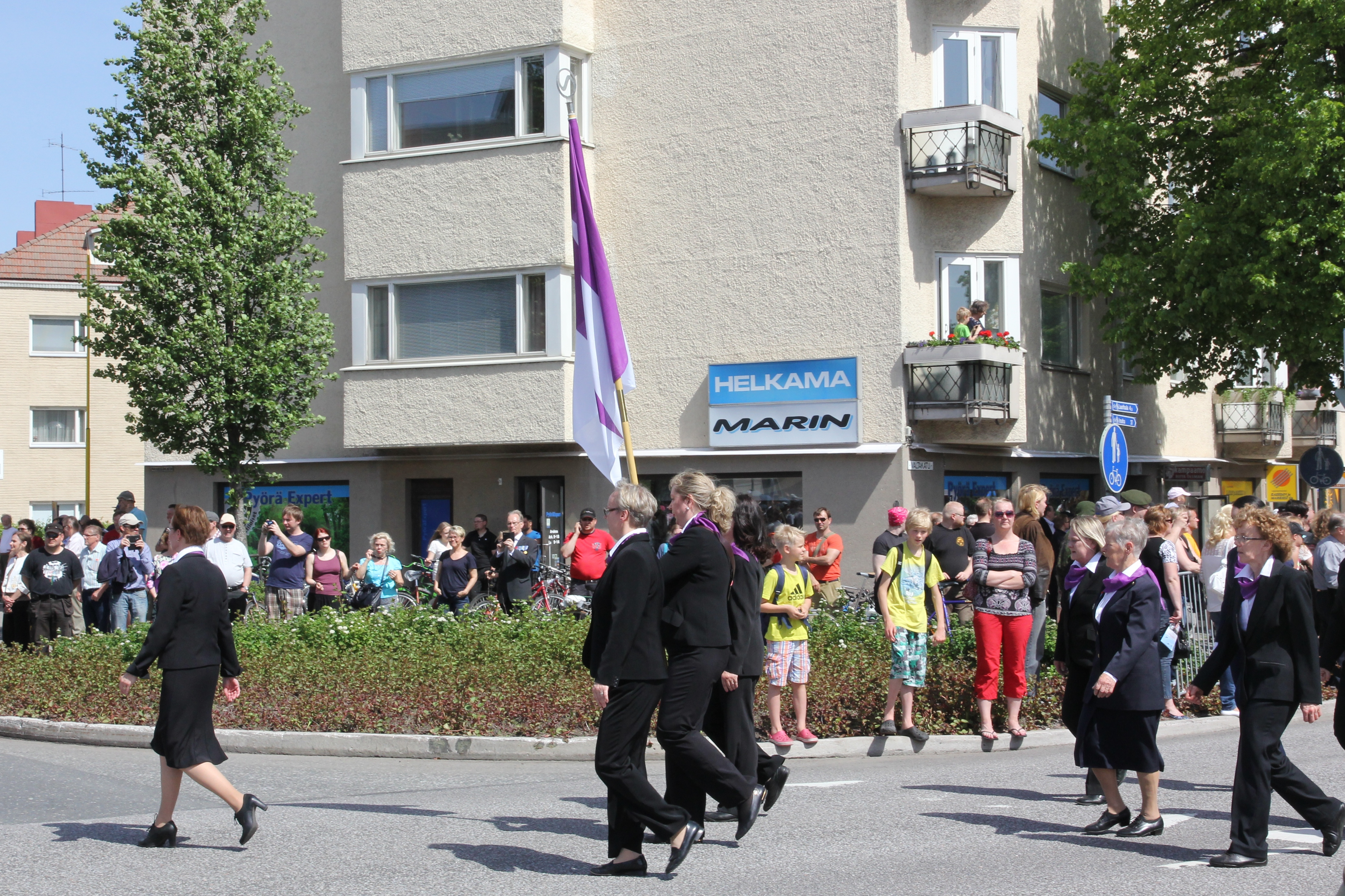 Women's readiness organization during the Finnish military Flag Day 2014 parade along Valtakatu street in Lappeenranta.